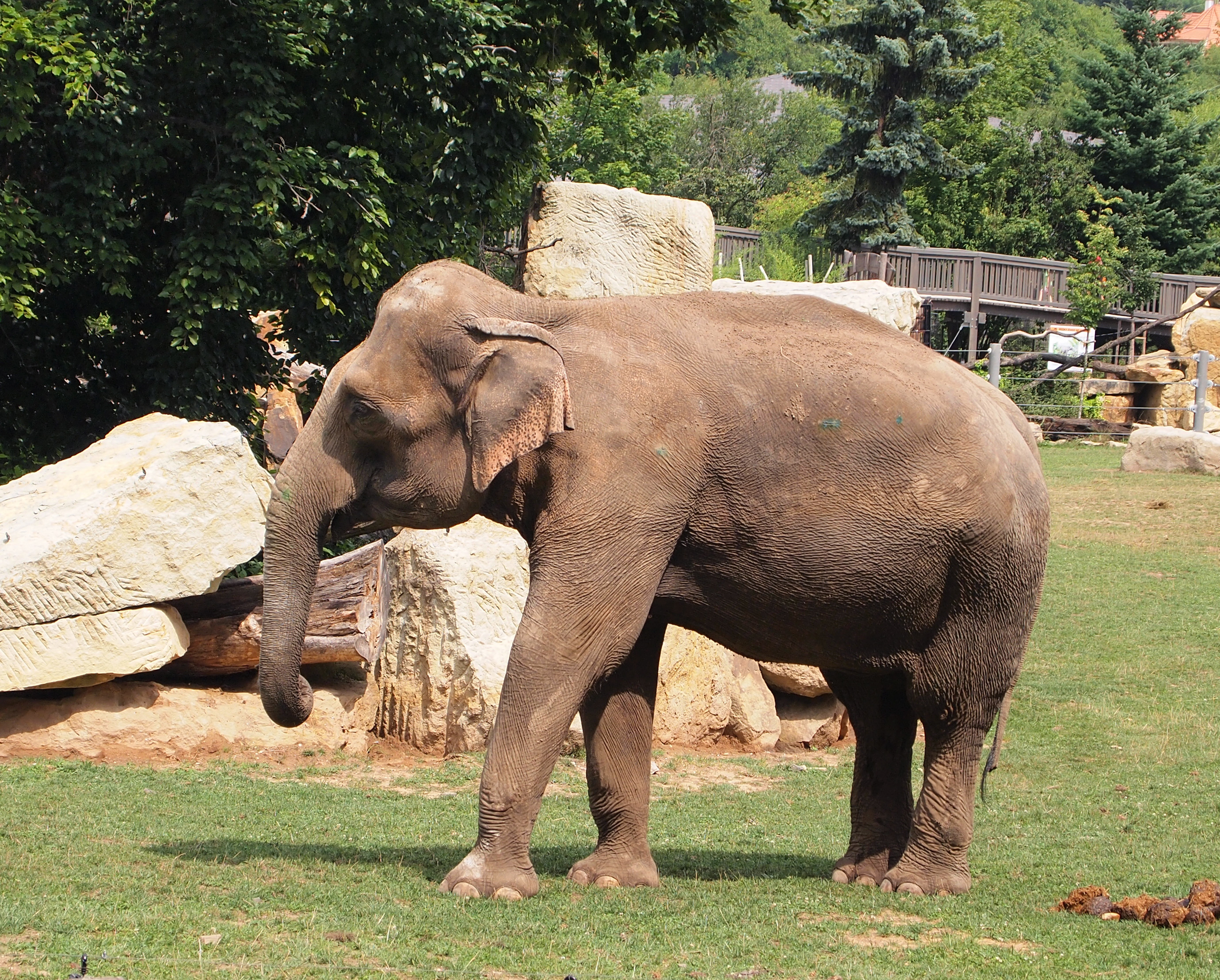 Elephant in Prague Zoo. This photograph was taken with an Olympus E-PL1